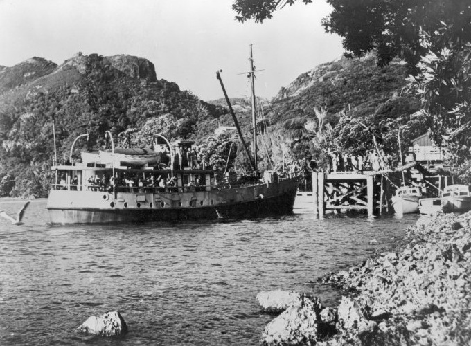 The ferry Coromel at the wharf of Port Fitzroy, Great Barrier Island, New Zealand, ca 1910. Extended information on origin webpage reads: Ferry Coromel, and passengers, at Port Fitzroy wharf, Great Barrier Island [ca 1910] / Reference number: PAColl-5521-10 / 1 b&w original photographic print(s). Silver gelatin print 204 x 152 mm. / Part of Young, L R: Photographs, including ones of Great Barrier Island and the timber industry (PAColl-5521) Photographic Archive / Scope and contents: Ferry `Coromel', and passengers, at Port Fitzroy wharf, Great Barrier Island, circa 1910. / Photographer unidentified.